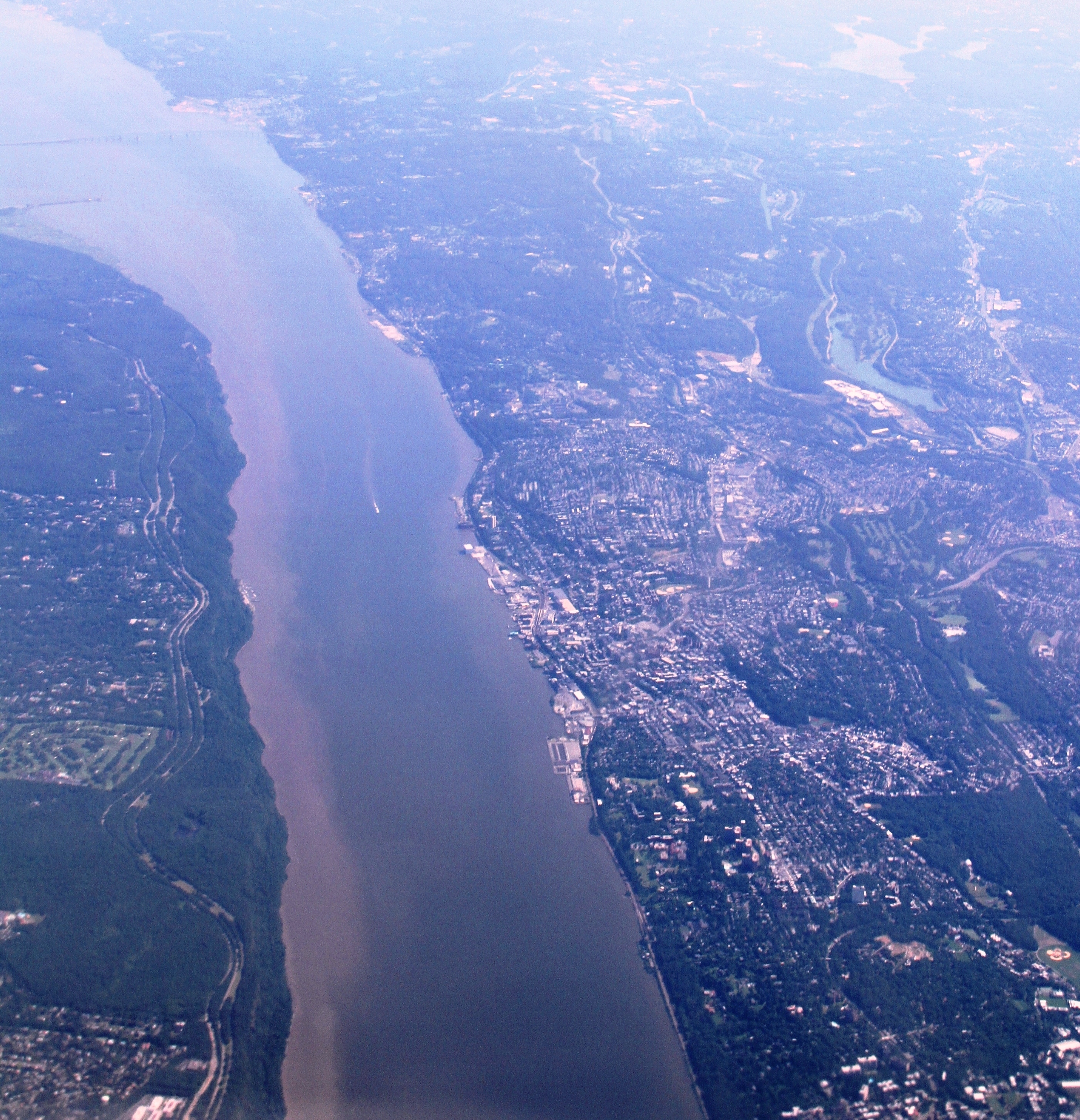 Aerial view of yonkers, New York. This city is a northern suburb of greater New York City, along the left (eastern9 shore of the Hudson River.